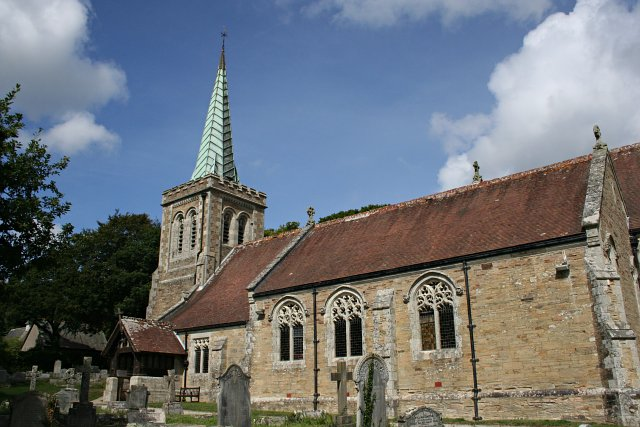 Kea Church. This is a relatively new church, the first attempt at building a new church for the parish of Kea was started in 1802 but was badly built and had to be pulled down before it fell down around the parishioners. This church replaced it and was consecrated in 1896.